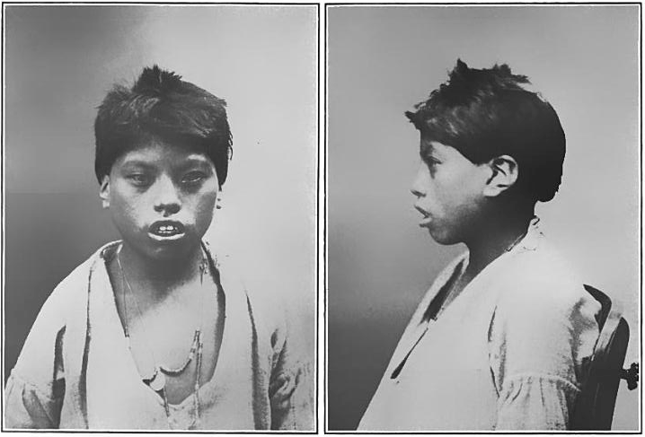 This picture is on page 115. It is of a fourteen-year-old indigenous boy who was born near Lake Titicaca.(beginning of page 113) Arthur Posnansky, Director of the Tihuanacu Institute of Anthropology, Ethnology and Prehistory, Bolivia, in a writing entitled "Mongoloid Signs in Some Ethnic Types of the Andean Plateau", (page 112) said that this individual has a Mongolian fold that almost completely covers his eyelashes and the part of his eye over the tear duct. (3rd paragraph page 113).